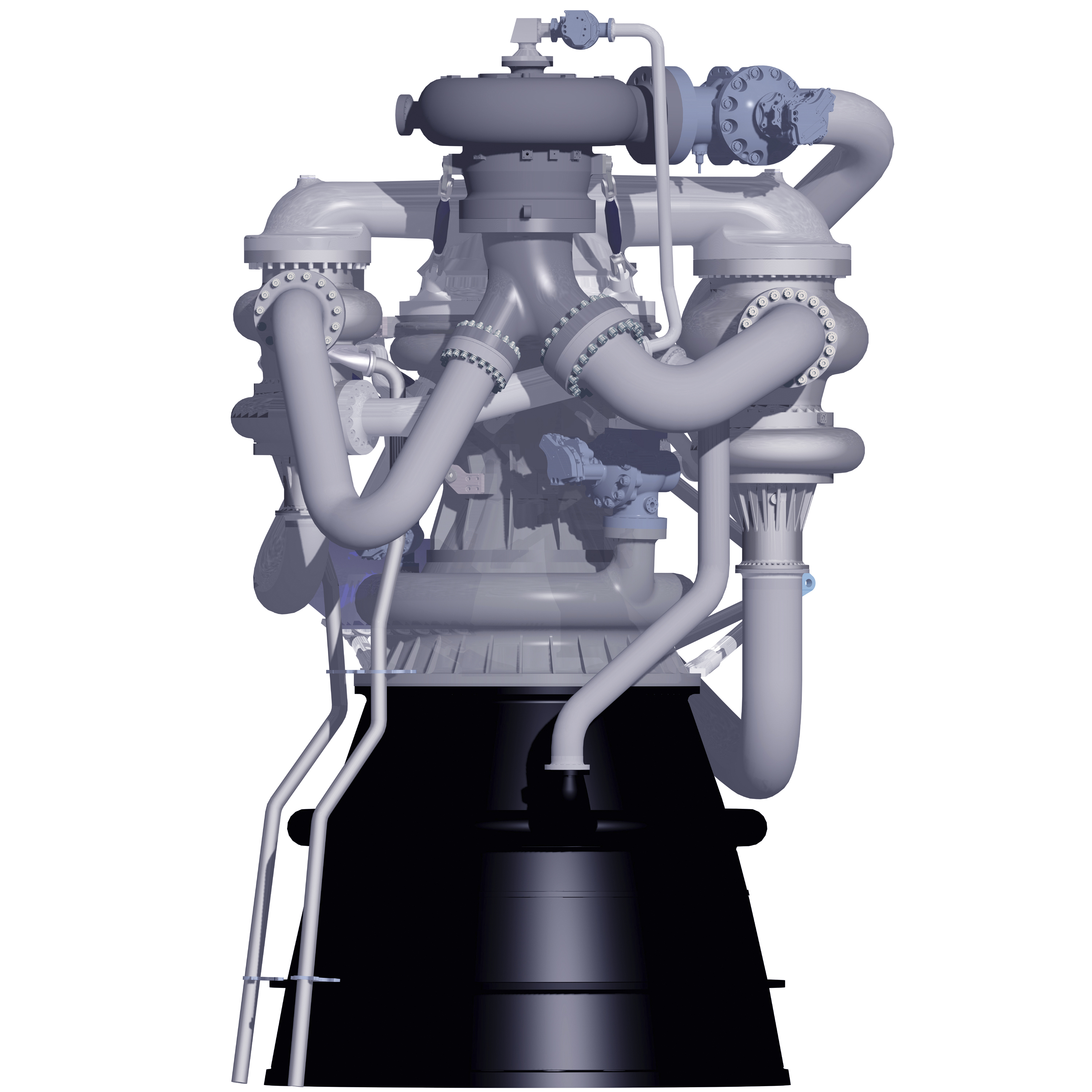 This is an artist's concept of the kerosene-fueled RS-84 engine, one of several technologies competing to power NASA's next generation of launch vehicles. The RS-84 has successfully completed its preliminary design review as a reusable, liquid kerosene booster engine that will deliver a thrust level of 1 million pounds of force. The preliminary design review is a lengthy technical analysis that evaluates engine design according to stringent system requirements. The review ensures development is on target to meet Next Generation Launch Technology goals: Improved safety, reliability, and cost.